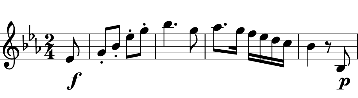 Joseph Haydn, Symphony No. 36, last movement, bar 1-4, first violin